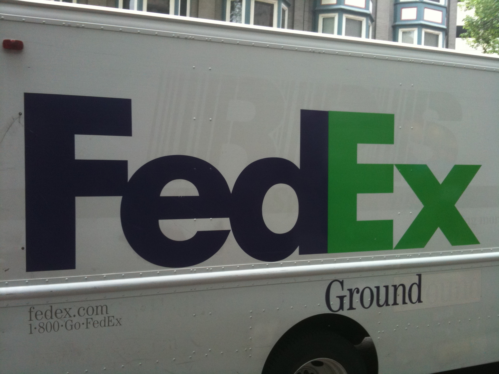 FedEx Ground replaces Roadway Package Systems. (Image author thanks @CatherineOmega for identifying the former logo.)